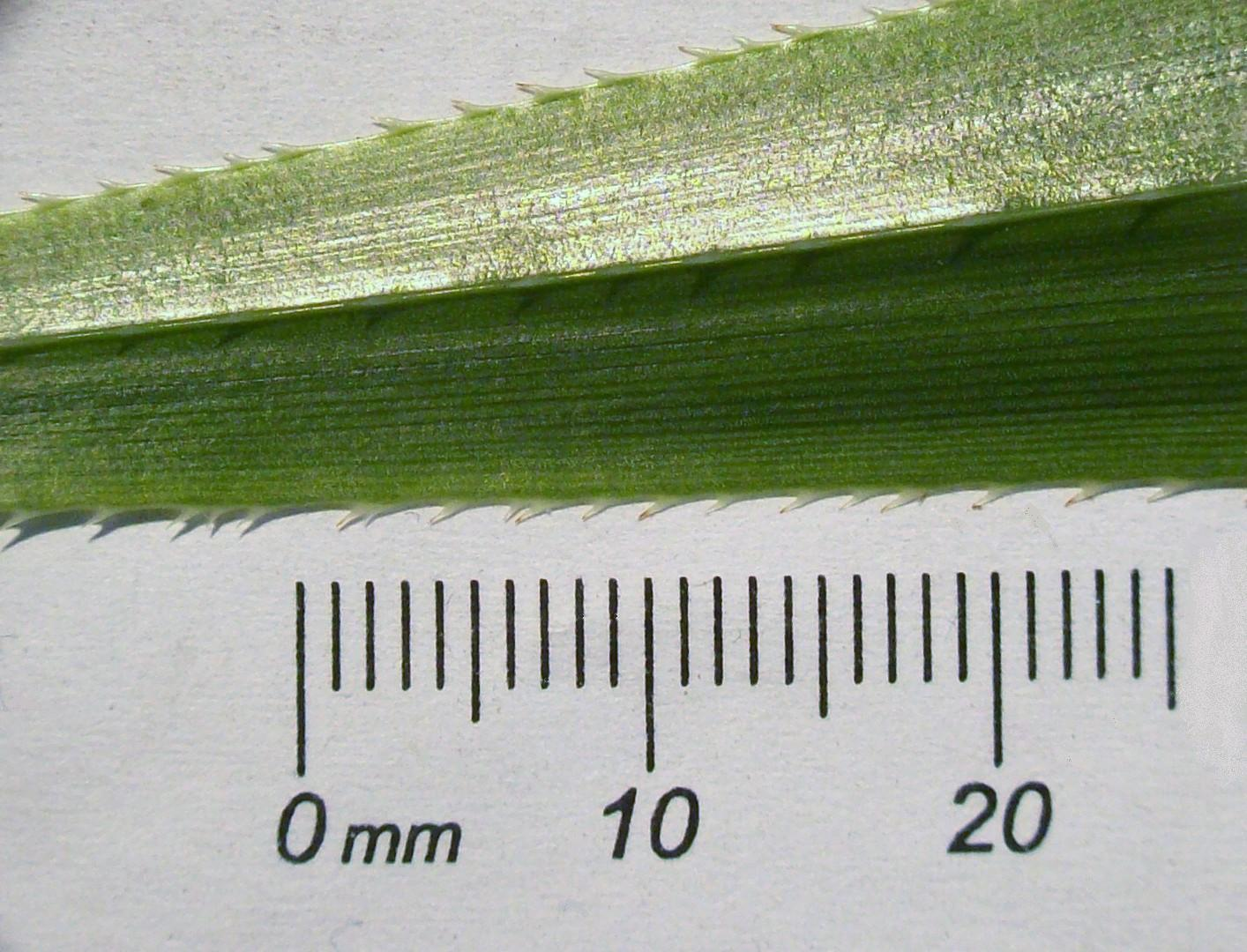 spines on a leaf